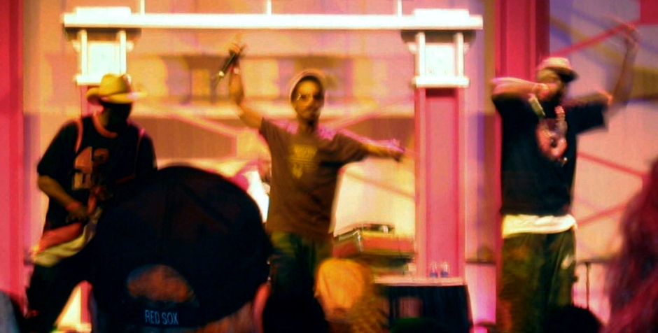 Rap group Nappy Roots performing during the 2004 NBA All-Star Jam Session at the Los Angeles Convention Center. The photograph was taken with a Canon PowerShot A70 camera and edited using ArcSoft PhotoStudio 5.5